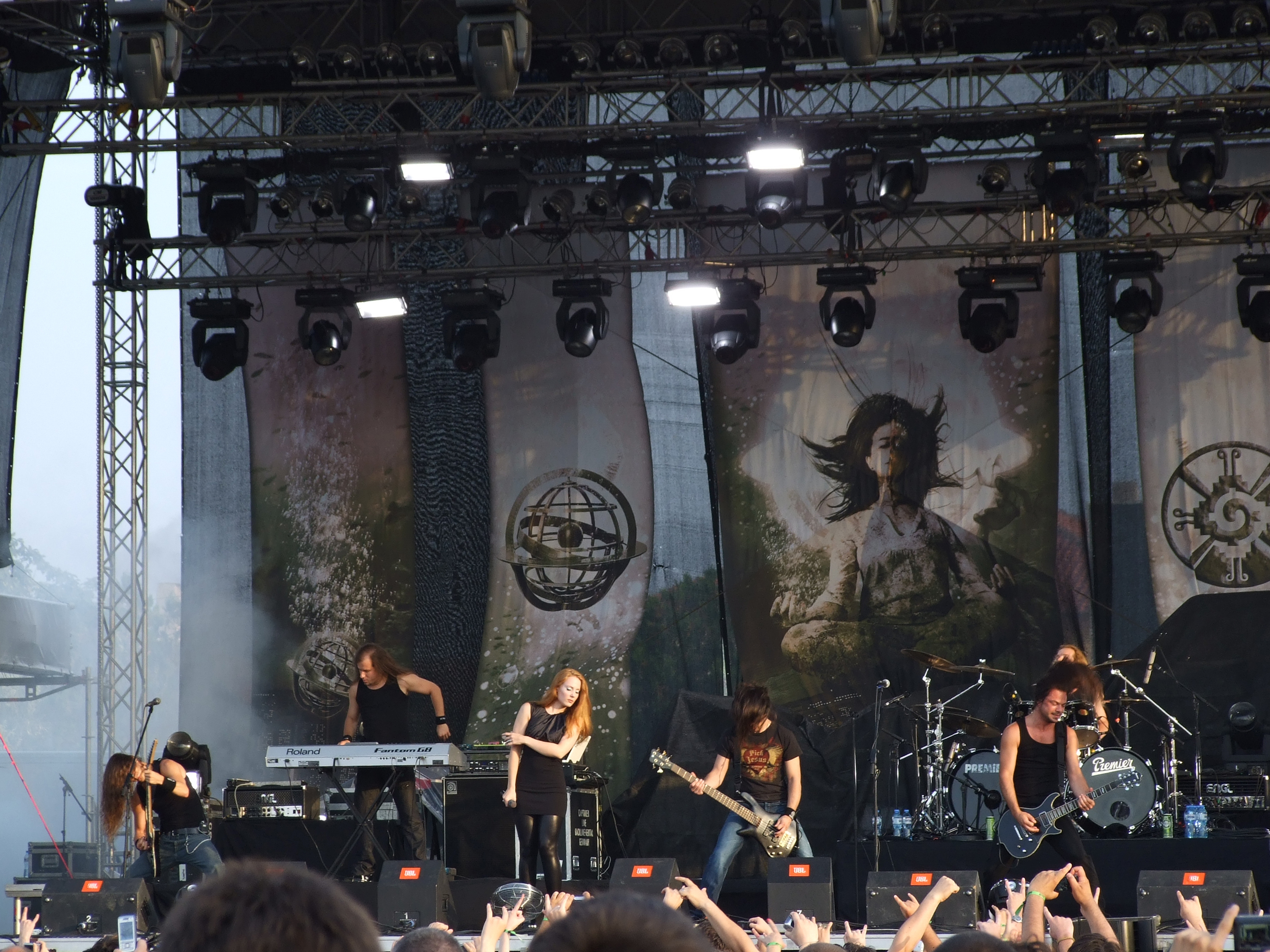 Epica at „Kavarna Rock Fest“, 23 July 2010, Kavarna, Bulgaria